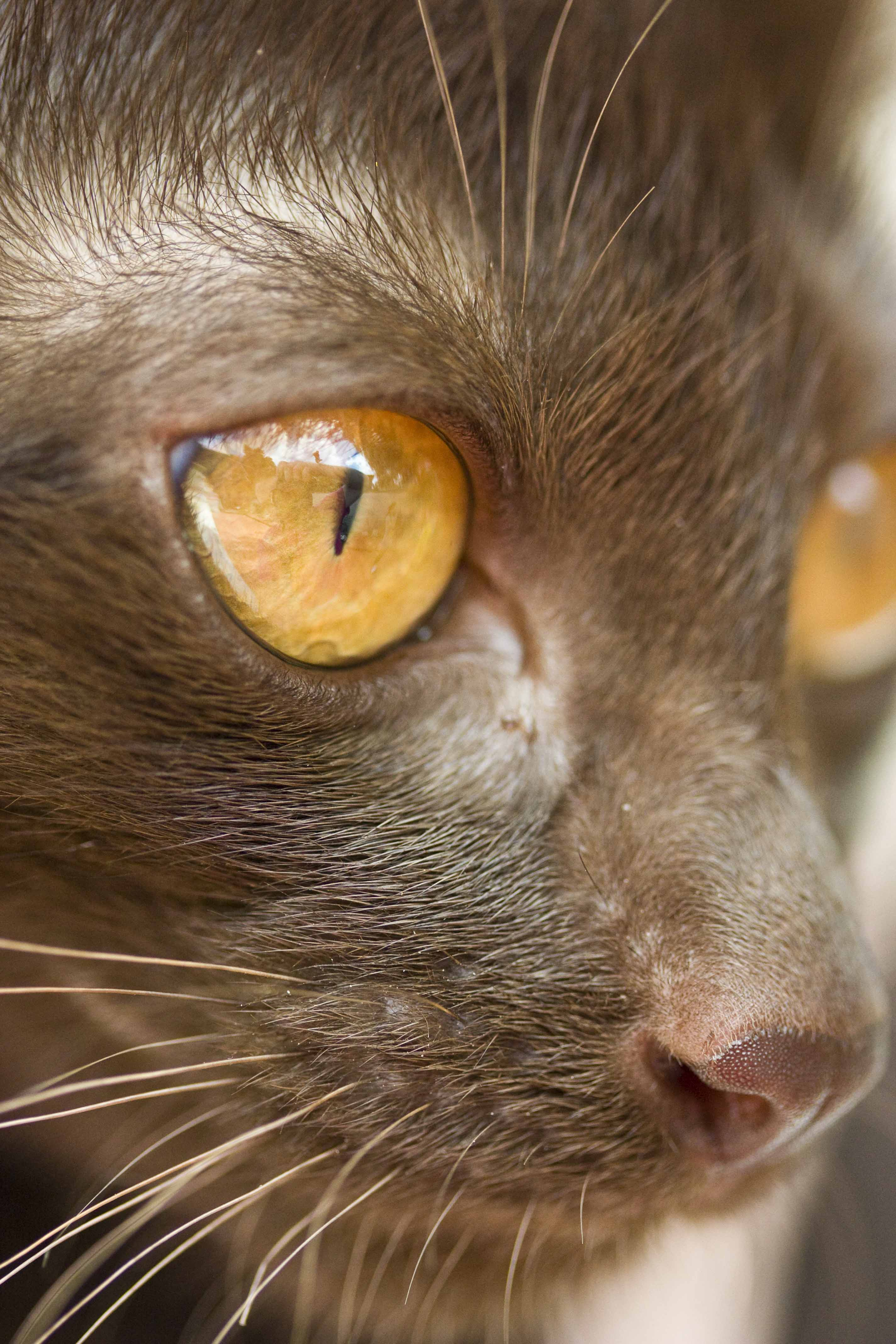 Photo of Suphalak Kitten in Chiang Mai